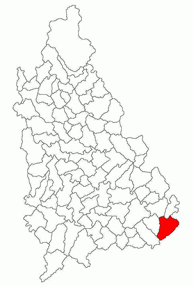 Locator map of Crevedia commune, Dâmbovița County, Romania